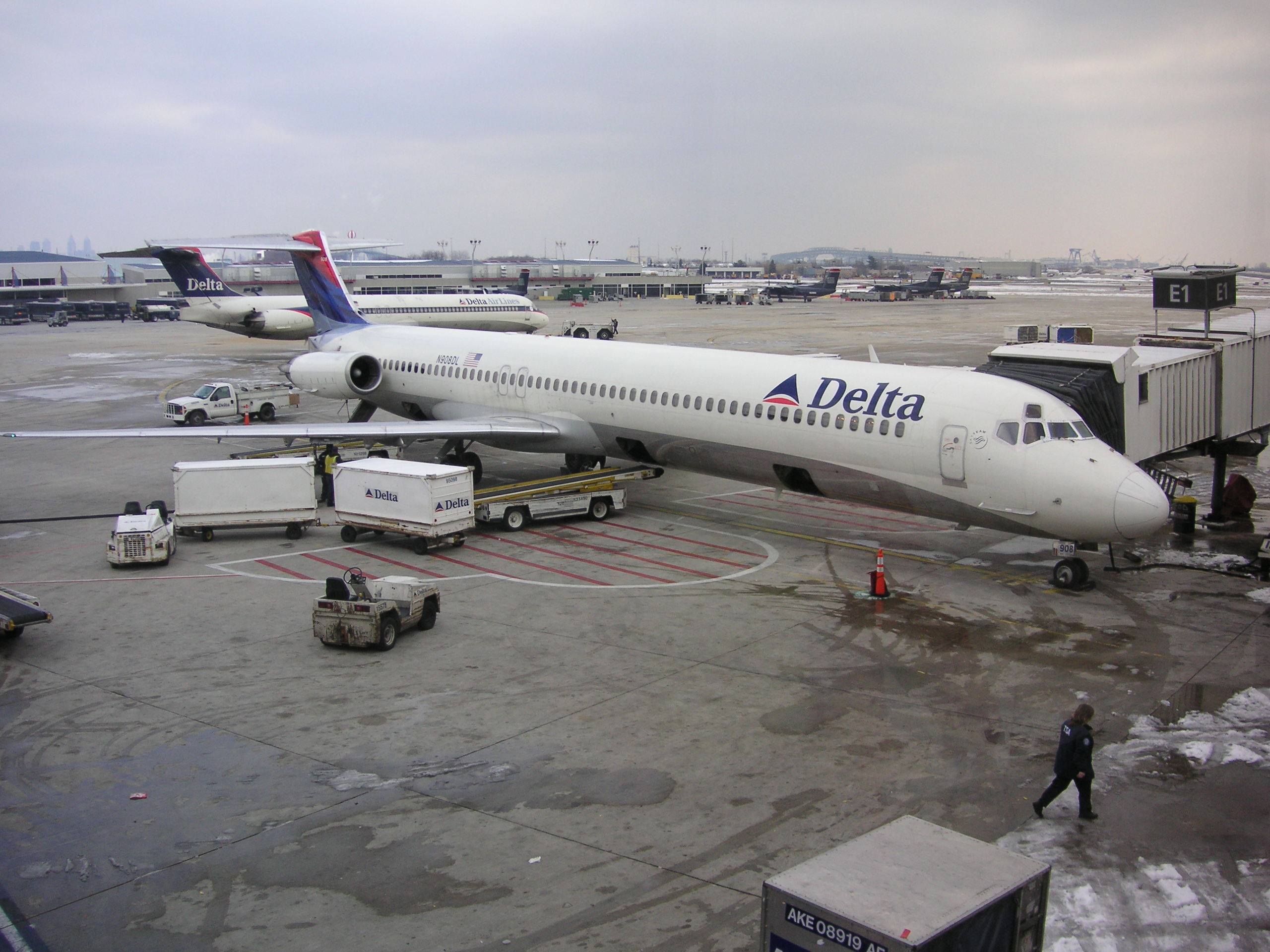 A Delta Air Lines McDonnell Douglas MD-88 airplane. Taken in Philadelphia, USA.